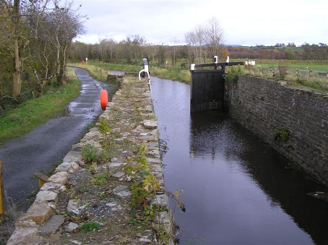 Locks, Strabane Canal (3). This is the lock at the northern end; this is the same lock 1037965